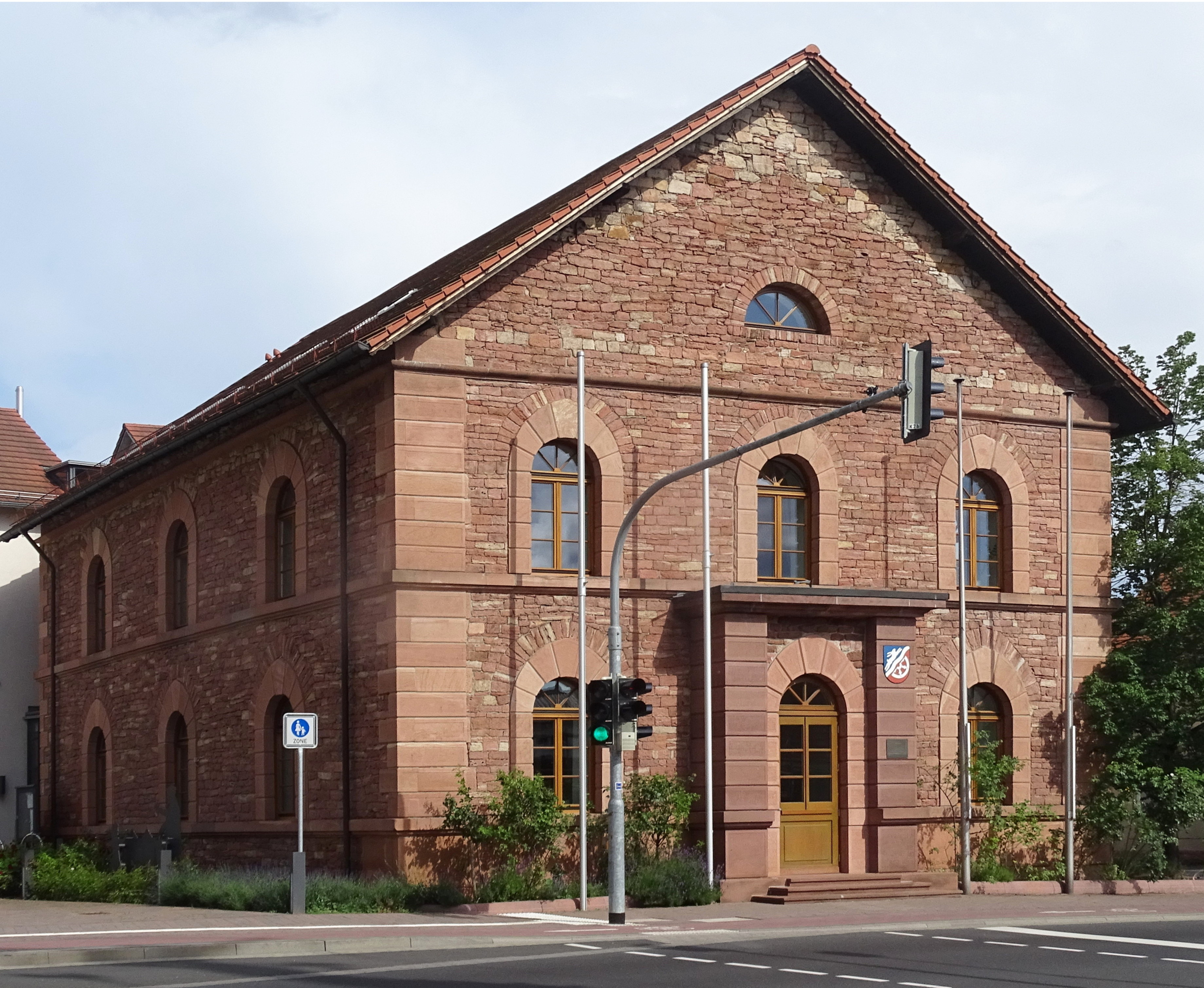 Town hall in Kahl am Main, Aschaffenburger Straße 1